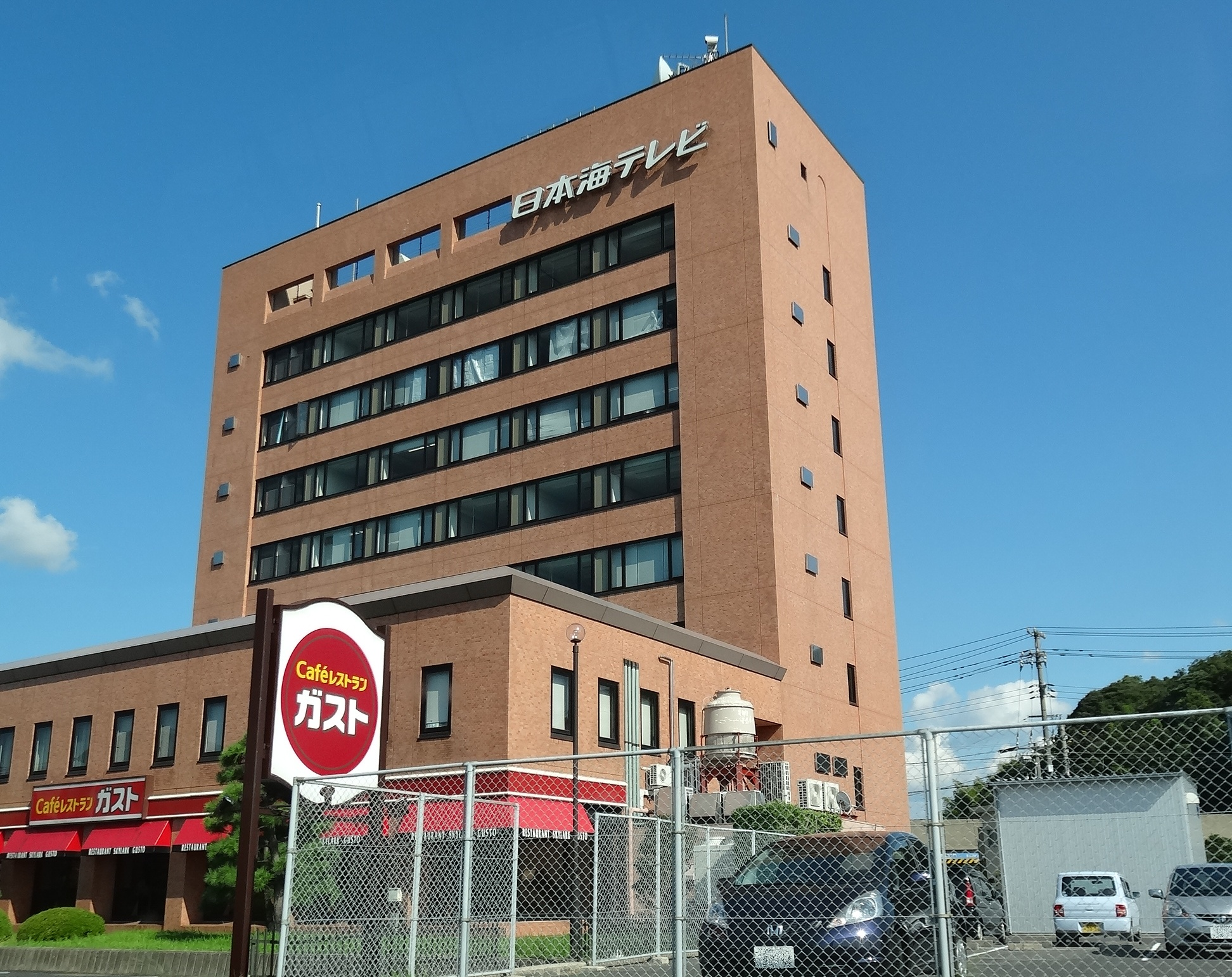 NKT Nihonkai Telecasting Shimane General Office (Matsue City, Shimae Prefecture, Japan)